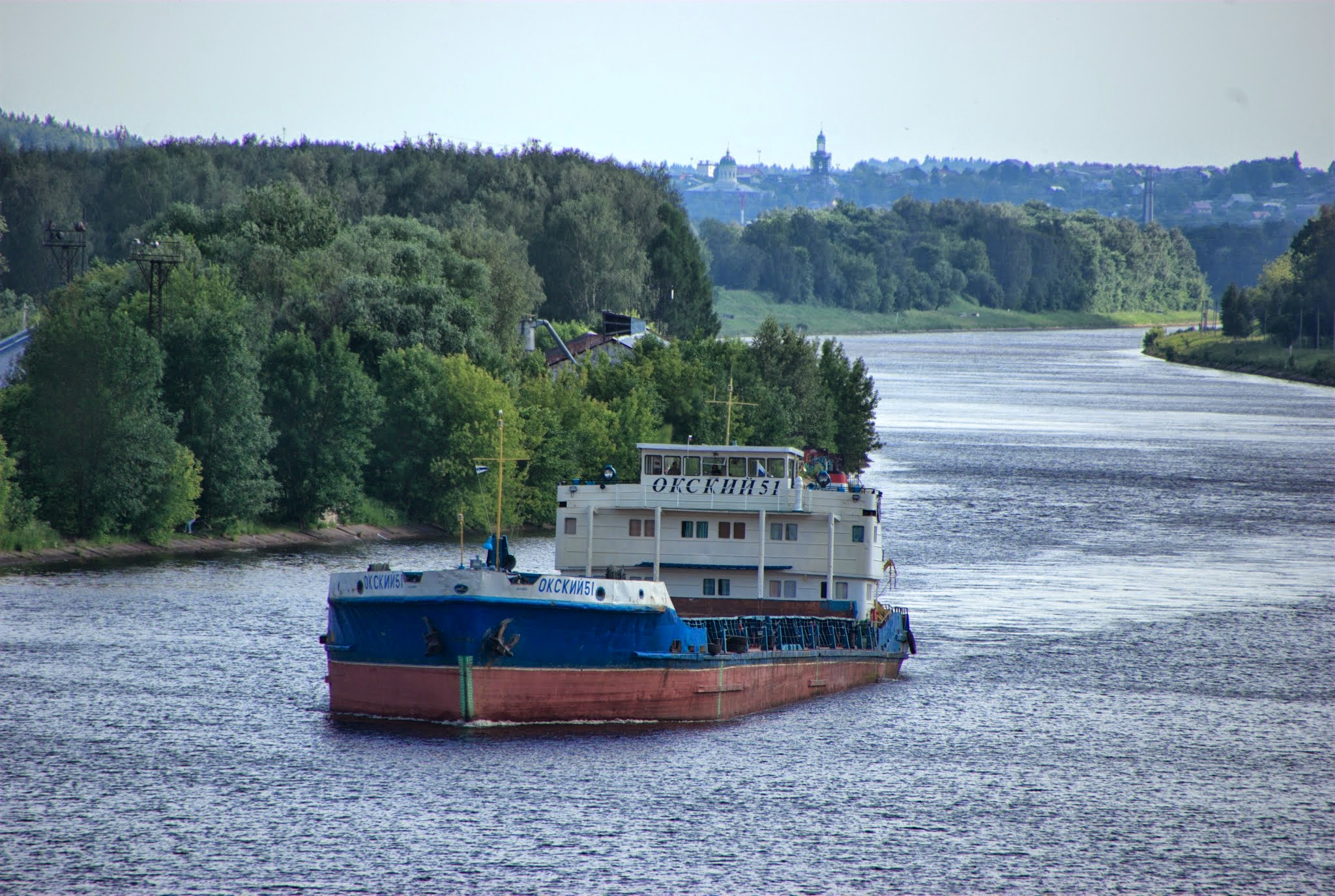 Dmitrov, Moscow Oblast, Russia